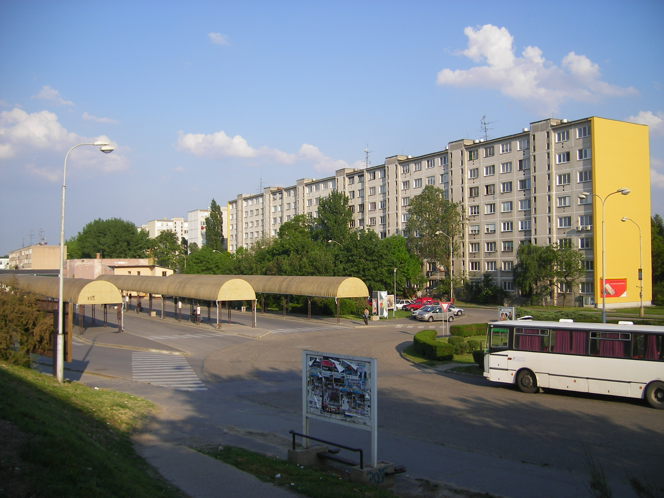 Bus terminal in Komárno, SK.